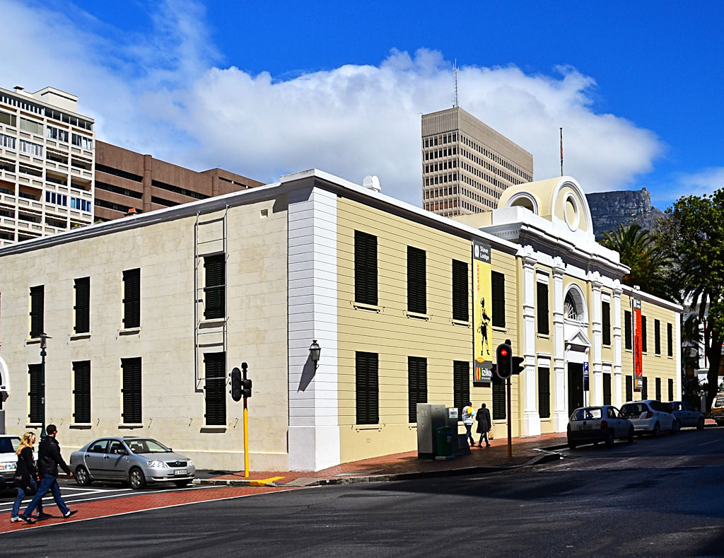 The Old Supreme Court at the top of the former Heerengracht (now Adderley Street) and adjoining Church Square is a remarkable building. Its history, its architectural merits and its symbolic significance make it unique in South Africa. The proper housing Previous use: Supreme Court, Slave Lodge. Current use: Museum. . This building was originally completed in 1680 as the Dutch East India Company's Slave Lodge. It was converted for use as government offices in the 19th century by Thibault (Inspector of Government Buildings), Anreith (sculptor) and Schutte (contractor).